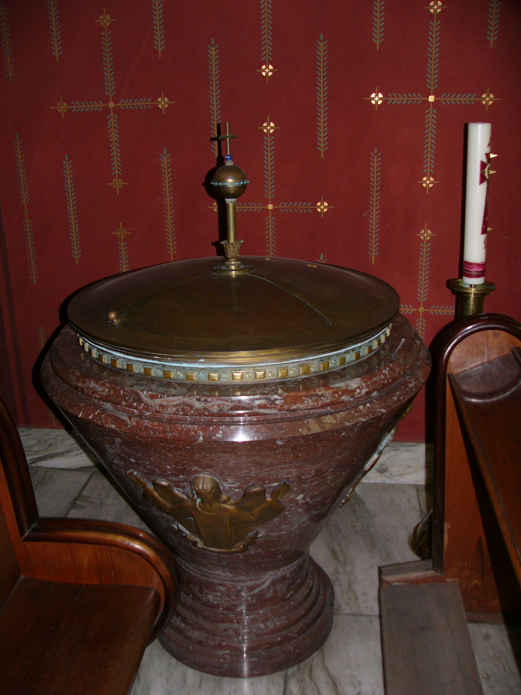 Baptismal font in Sts. Cyril and Methodius's church in Olomouc (Czech Republic). Made by sculptor Julius Pelikán in 1932. The Baptismal font is from one one piece of "Belgian marble". Reliefs are of brass.